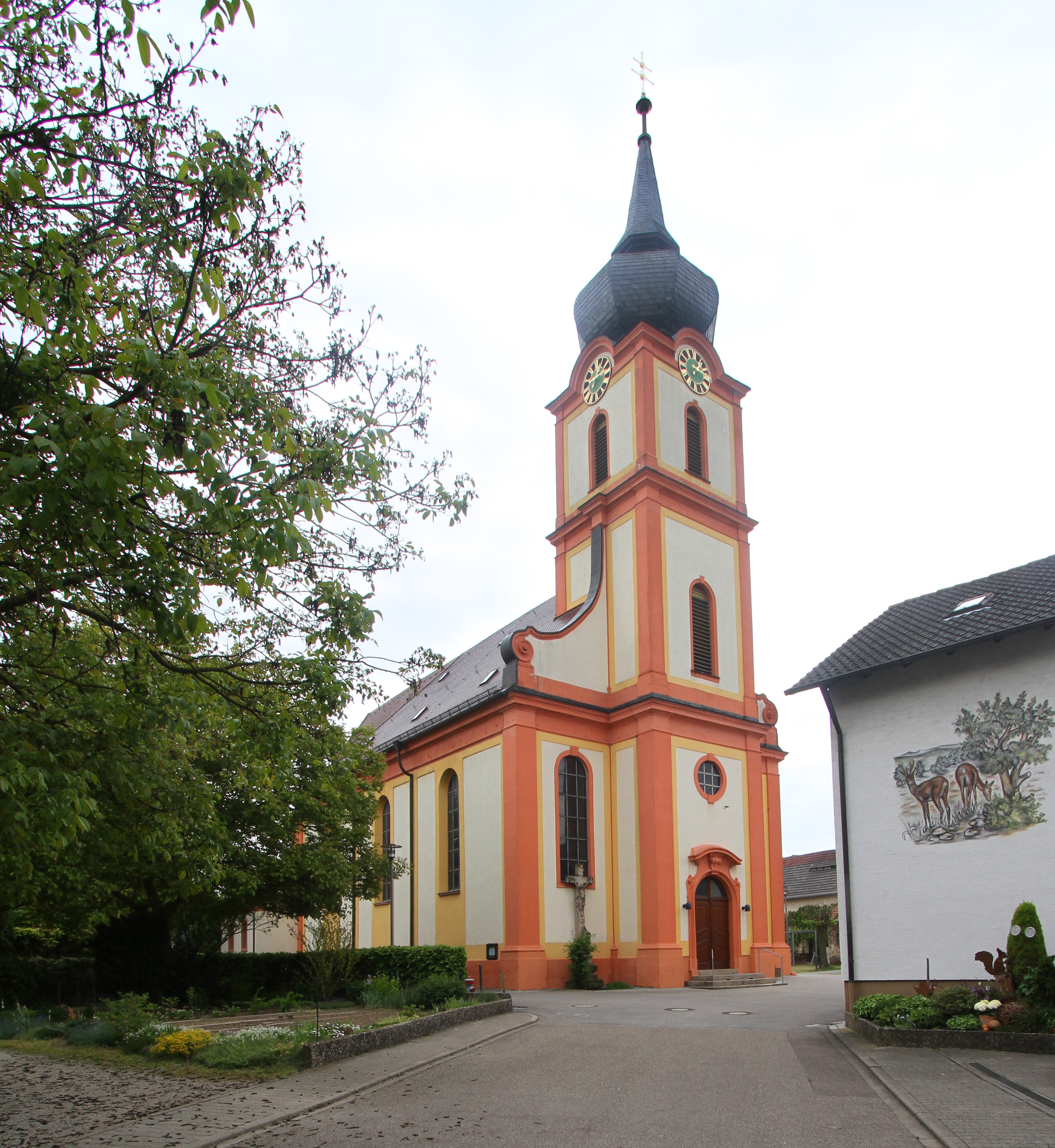 Church of St. Erhard in Rheinmünster-Stollhofen.